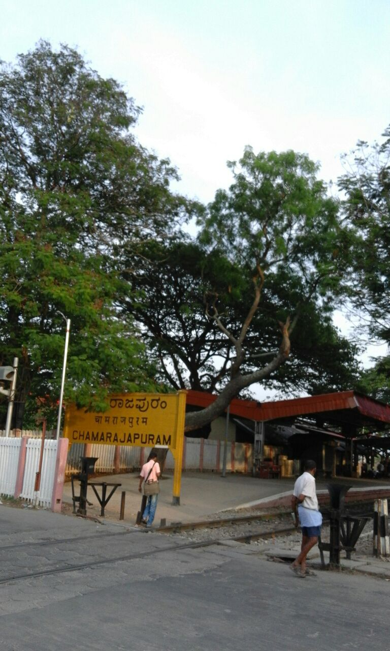 Mysore city, Karnataka province, India. This railway station is only two kilometrs from Mysore and is part of the city. It is different from Chamarajanagar town which is 71 km away from Mysore.